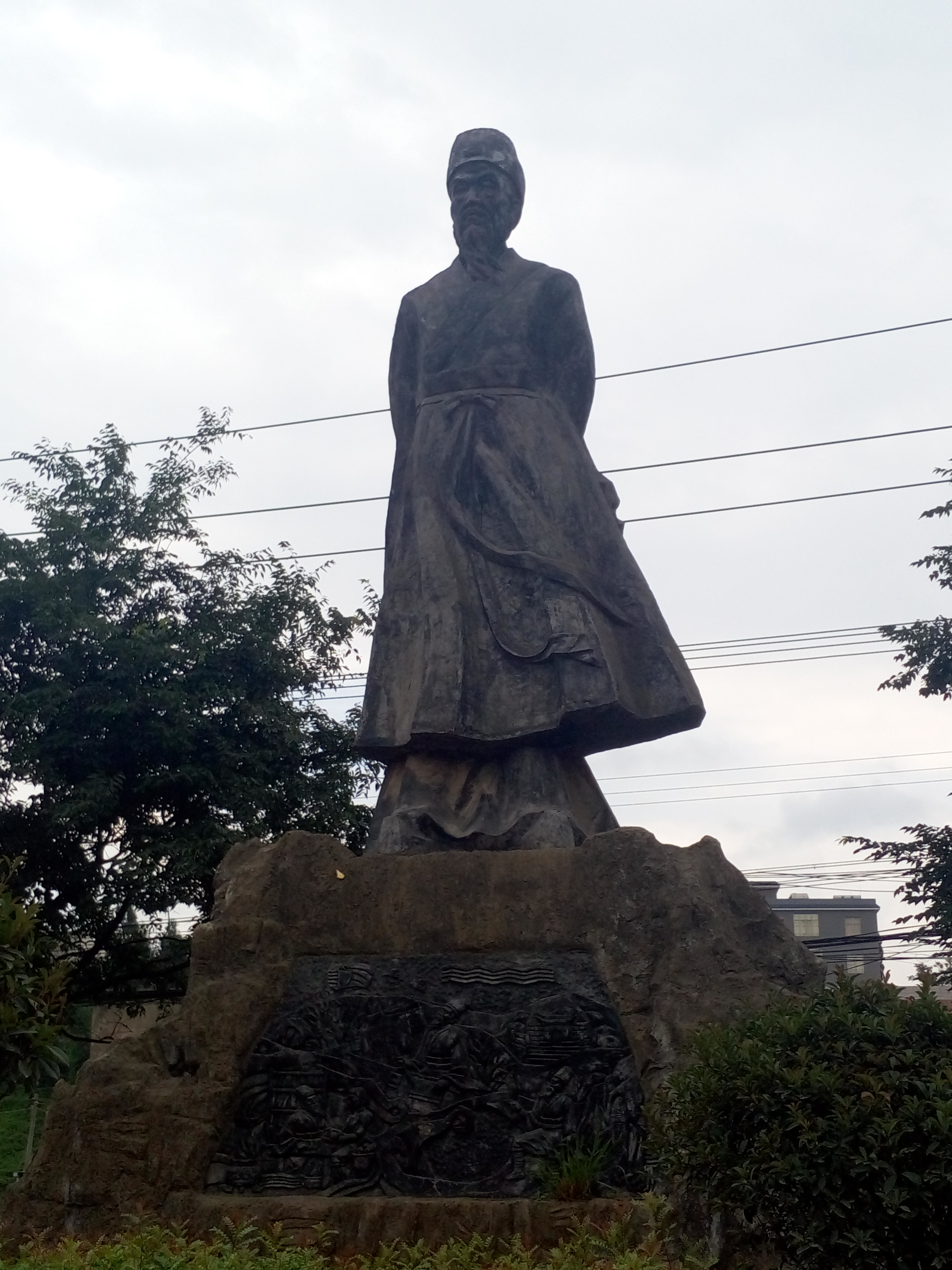 Statue of Lan Mao, in Yanglin Town, Songming County